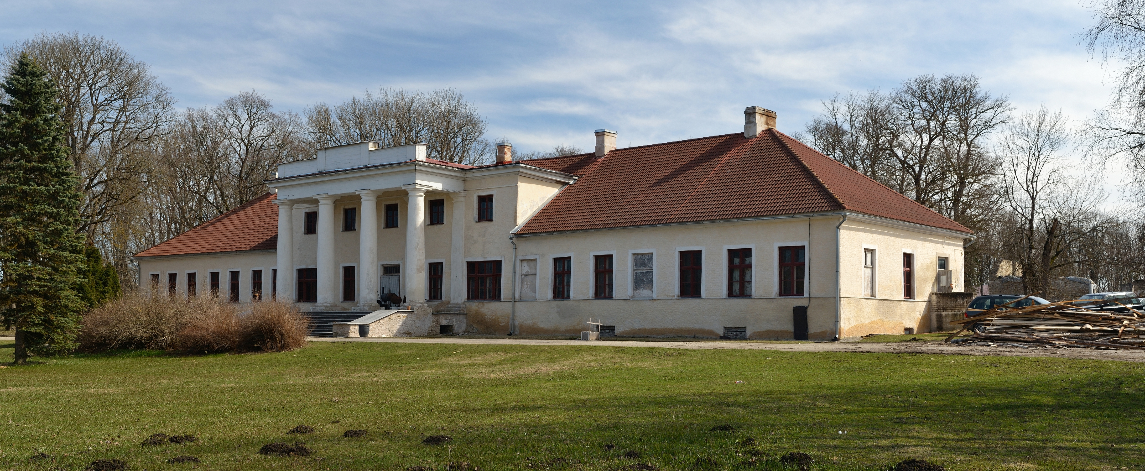 Ervita manor main building